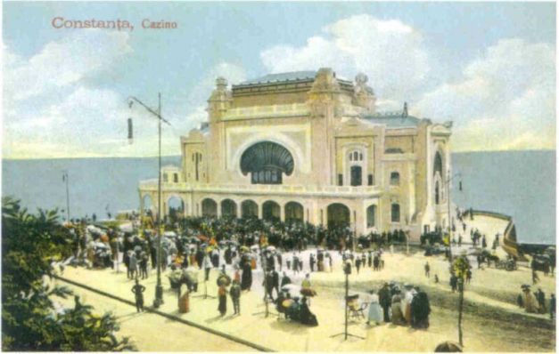 Third Casino Structure